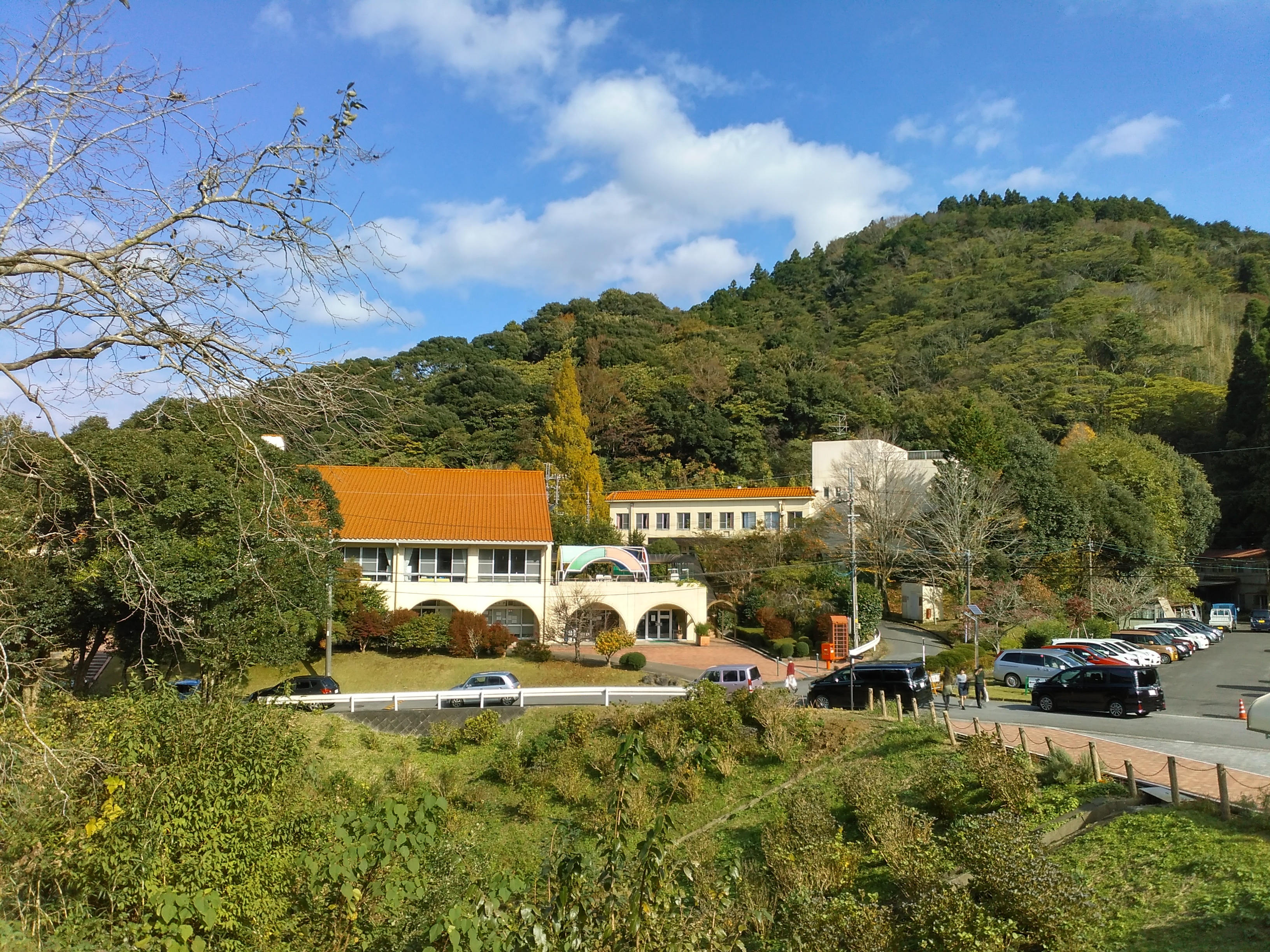 The cafeteria (left) and the Dormitory "Myrte" (right) at Saniku Gakuin College, located in Otaki, Chiba, Japan.